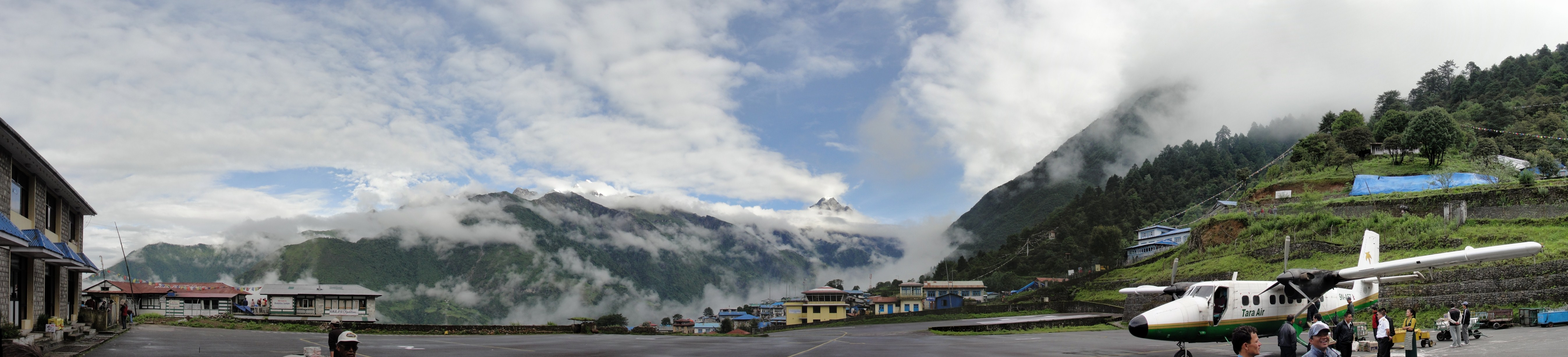 Panoramic view of Lukla Airport. Shows common misty conditions, and Twin Otter licensed to Tara Air.